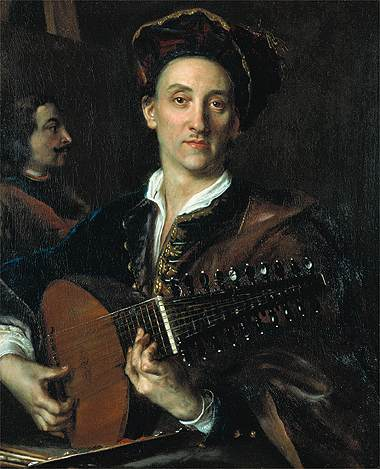 A man playing a lute